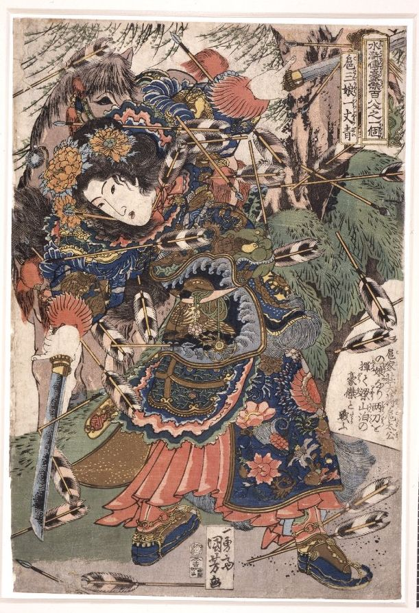 Hu Sanniang (扈三娘) cuts flying arrows with a sword in either hand, her horse behind her